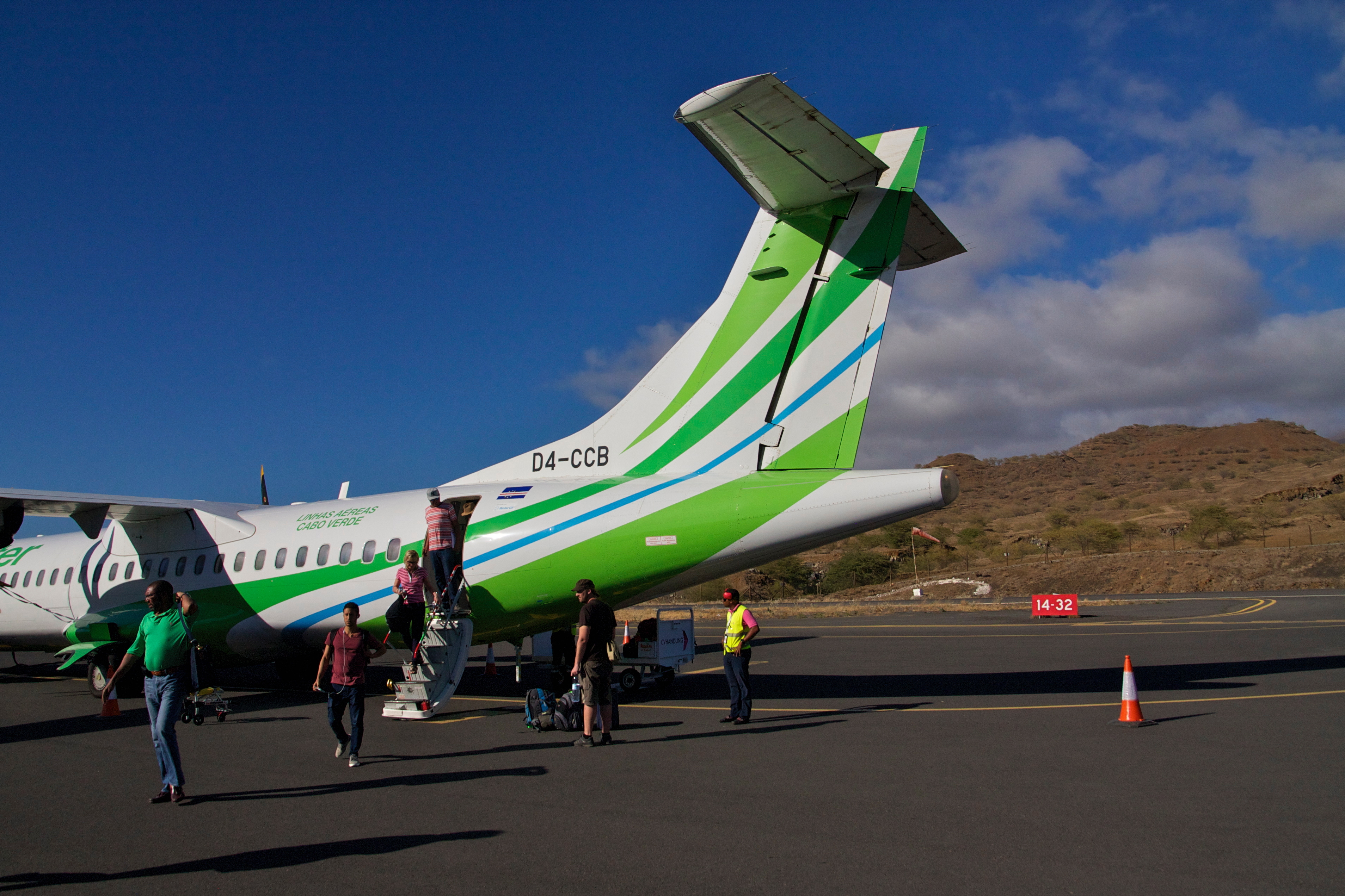 This is an image with the theme "Africa on the Move or Transport" from: Cape Verde